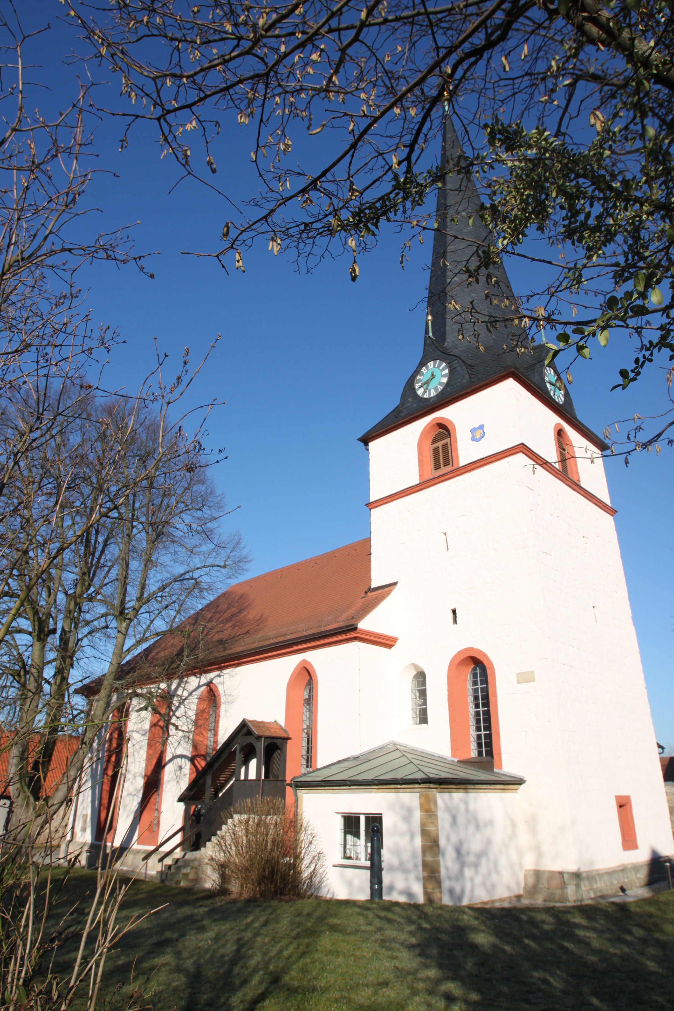 Church St. Aegidius in Melkendorf district of Kulmbach